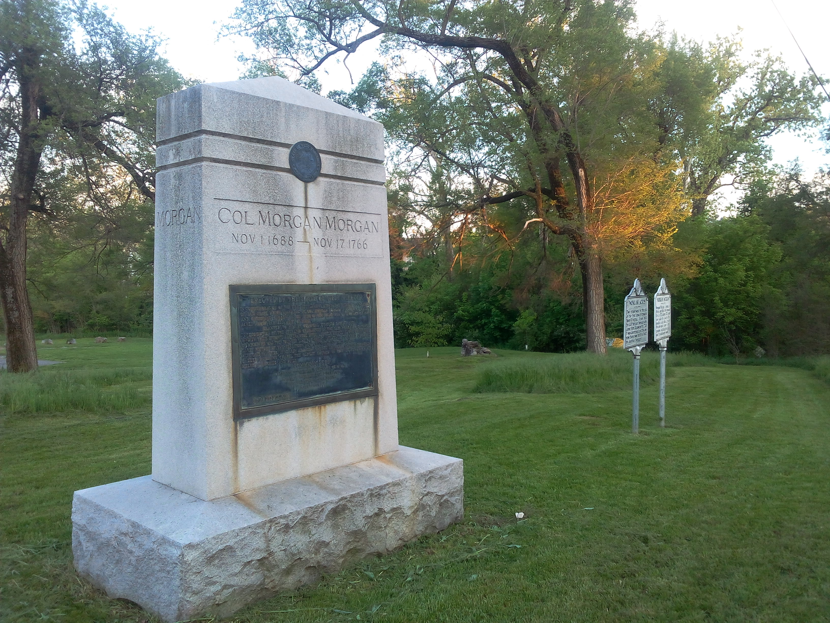 At town center near former mill